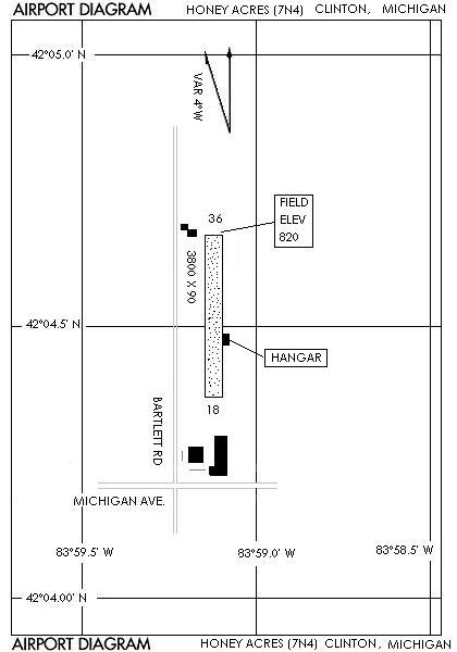 Honey Acres Airport diagram, Clinton Michigan. Note: This diagram was created using FAA data, but is not a copy of an FAA diagram nor produced by the FAA. It is a facsimile of an FAA airport diagram.